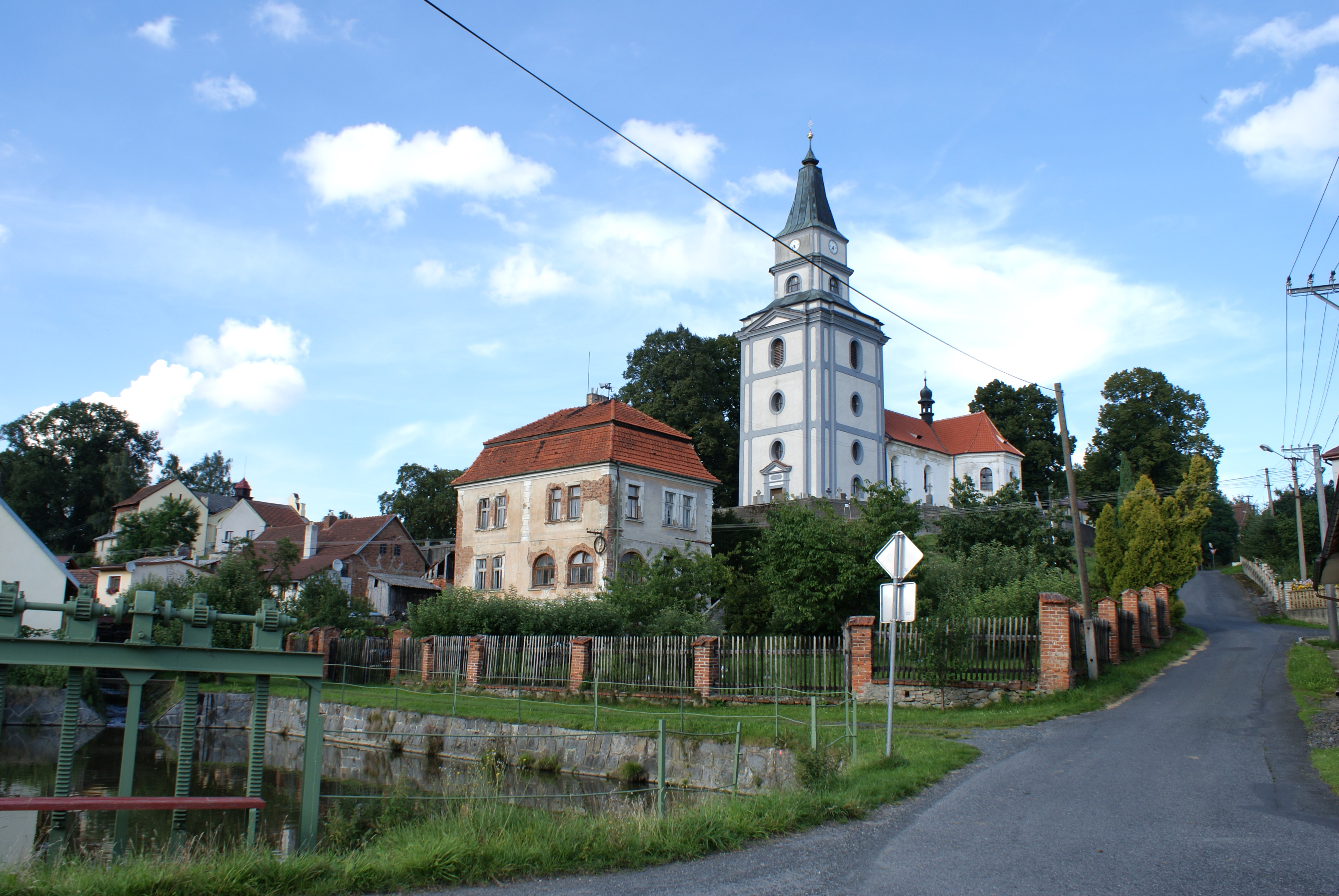 Předslav, a village in Klatovy District, Czech Republic, the church.